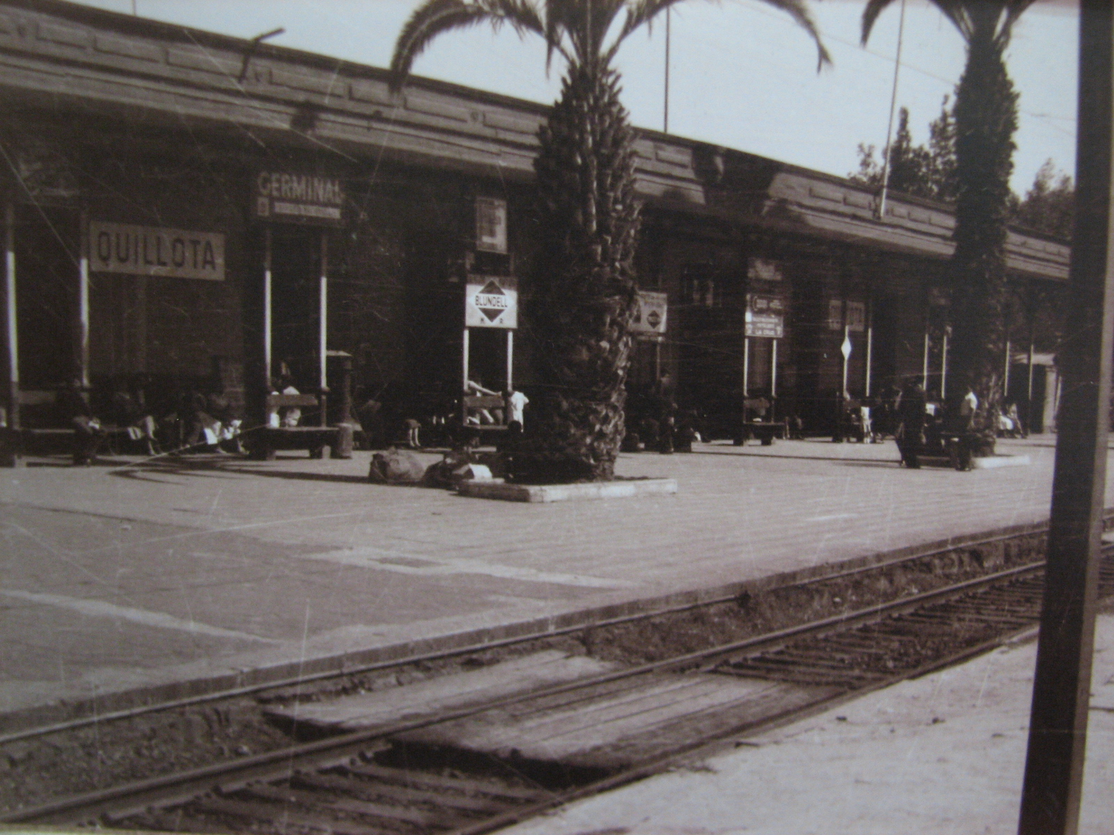 Estaciòn FF EE